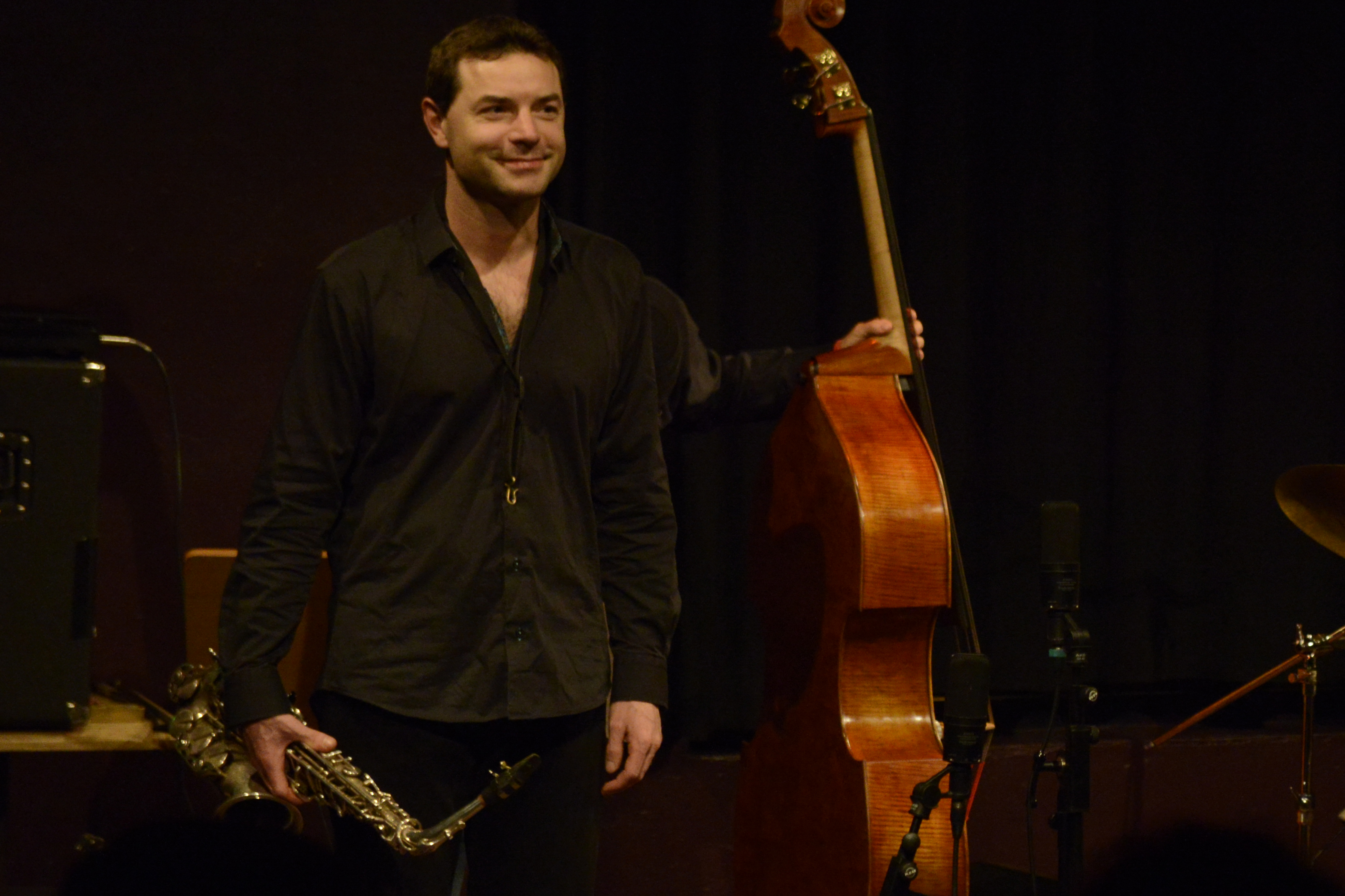 French Jazz musician Sébastien Texier (reeds)